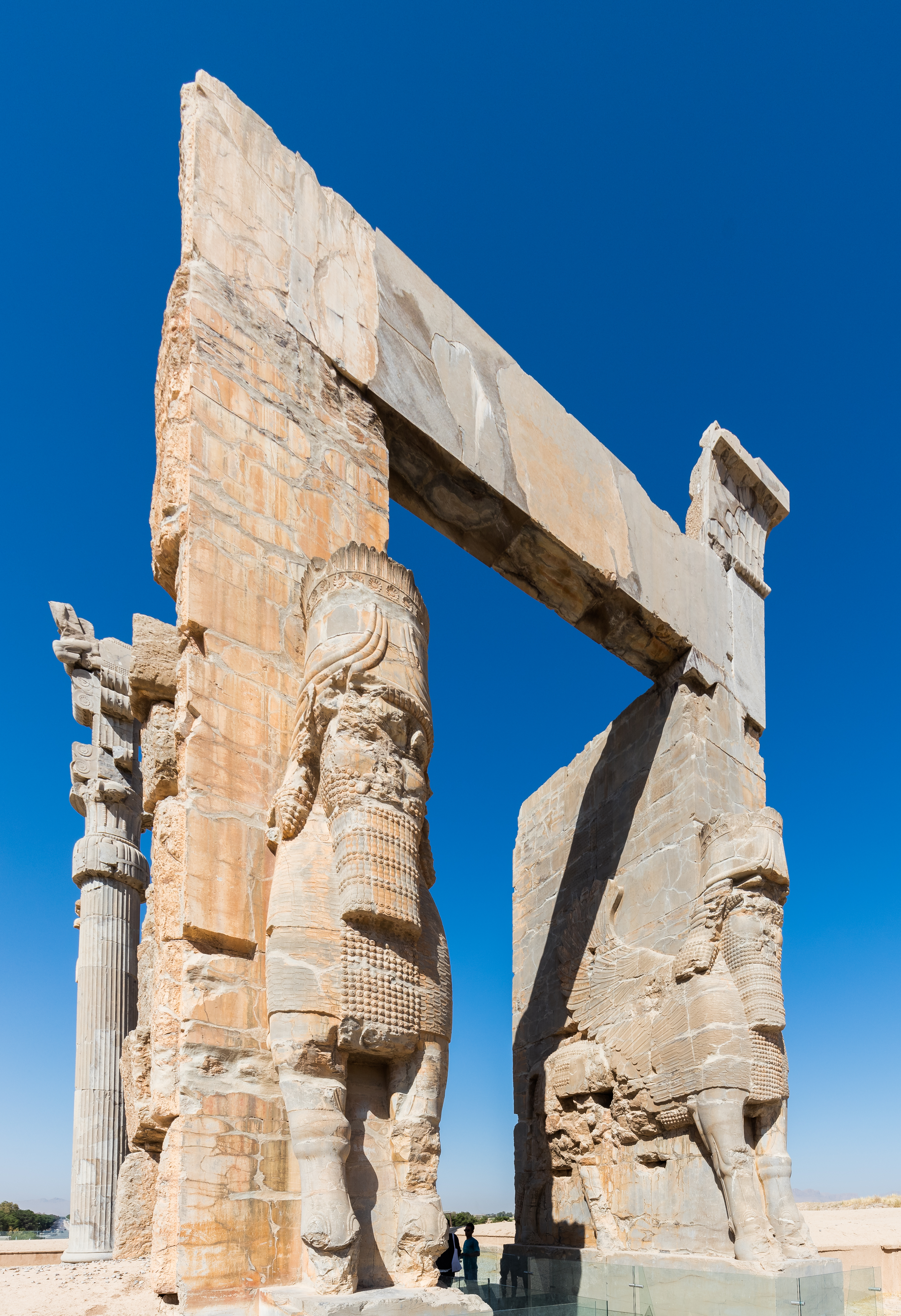 Persepolis, Iran